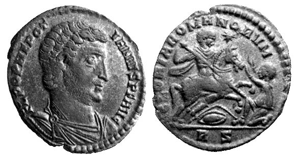 Nepotianus, usurper, March 30-June, 350 A.D. AE Centenionalis. FL POP NEPOTIANVS P F AVG. Bare-headed, draped, and cuirassed bust r. GLORIA ROMANORVM. Emperor galloping r. spearing kneeling barbarian with outstretched arms below horse; broken spear and shield below horse; star above; R S in ex. RIC 200.